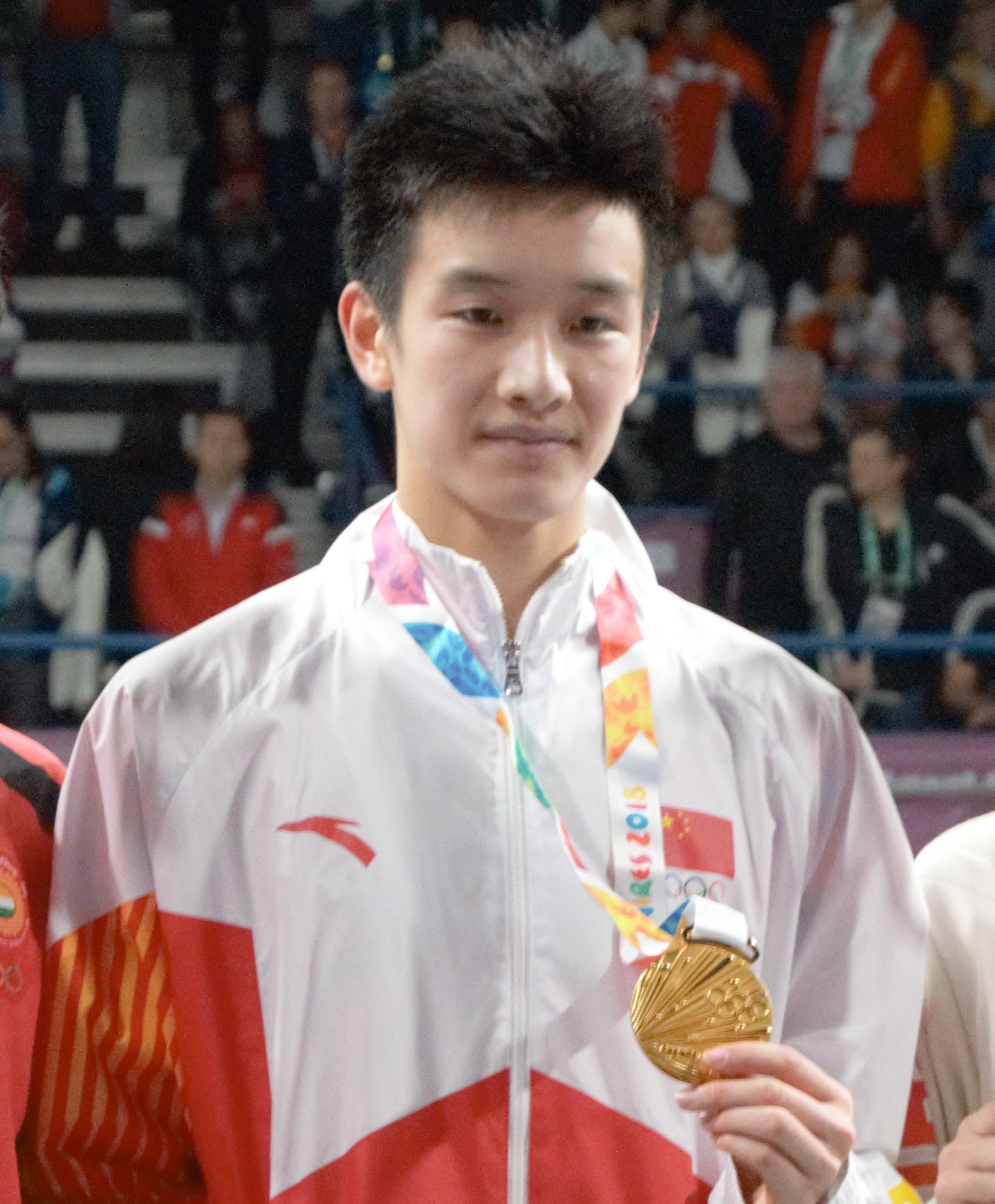 Victory ceremony of the boys singles badminton tournament of the 2018 Summer Youth Olympics.